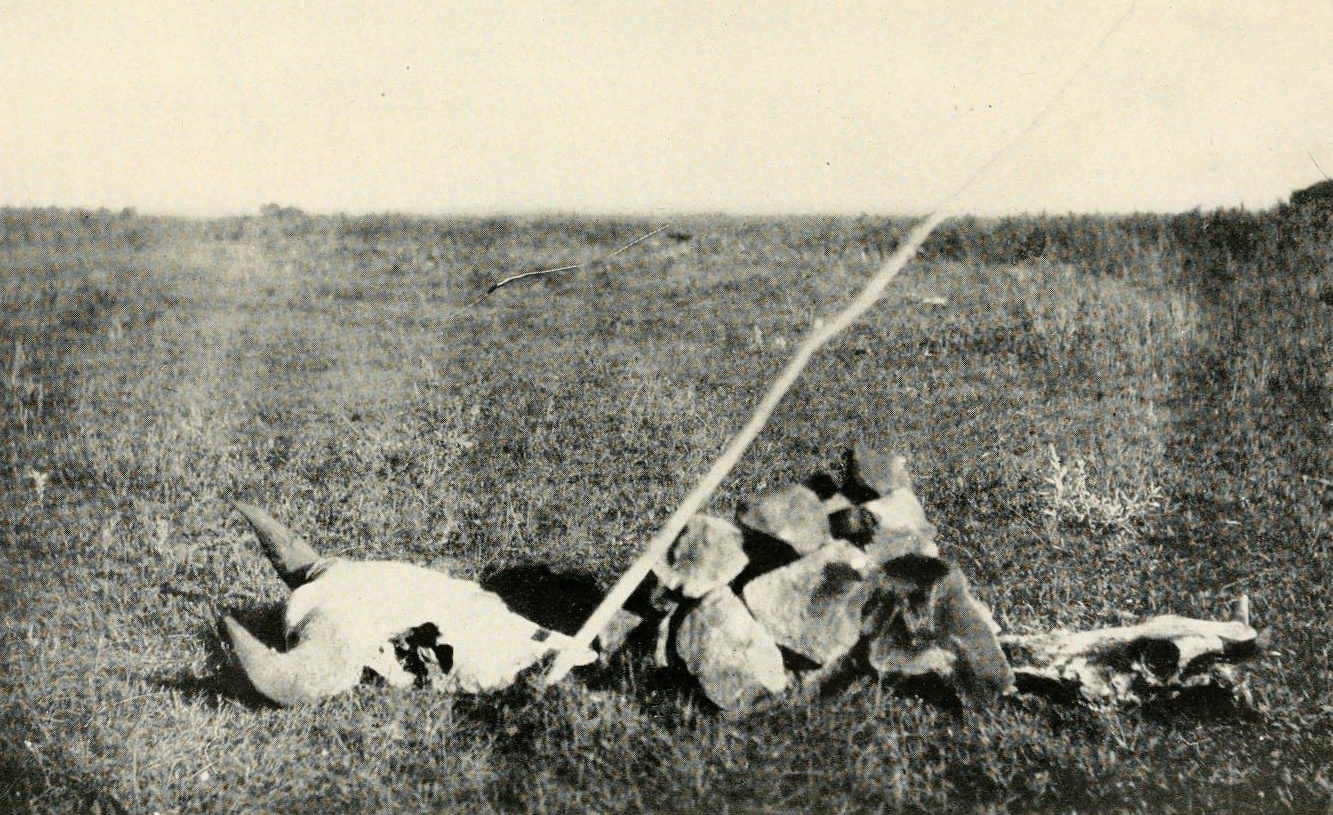 Sign left by the Lakota (Dakota) Indians during the Great Sioux War in 1876. Arikara Indian scouts with the U.S. Army thought the skull of the Buffalo bull represented the Lakotas and the smaller skull of the Buffalo cow designated the U.S. Army. The sign was found just a short time before the battle of the Little Bighorn River. Sign likely reconstructed in 1912, when Orin G. Libby secured the Arikara narrative of the 1876 campaign